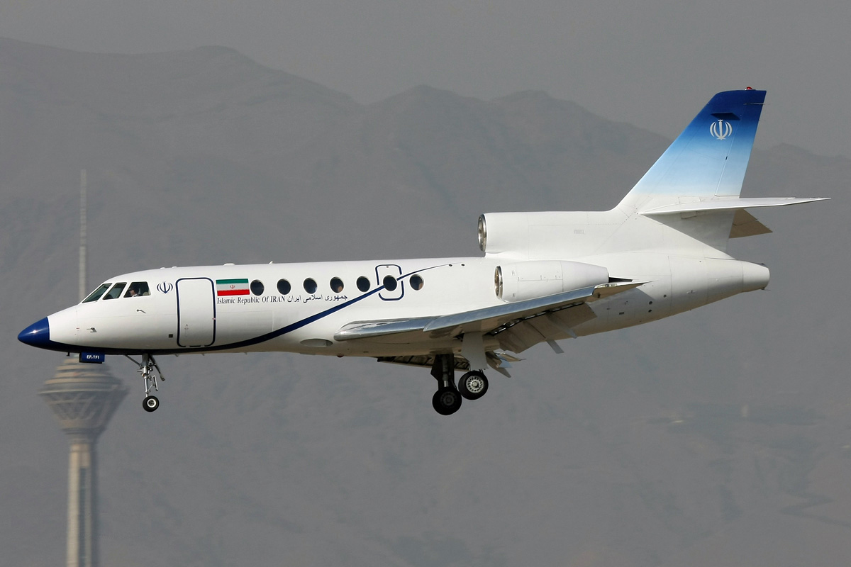 A Iranian Government Dassault Falcon 50 lands at Mehrabad International Airport.